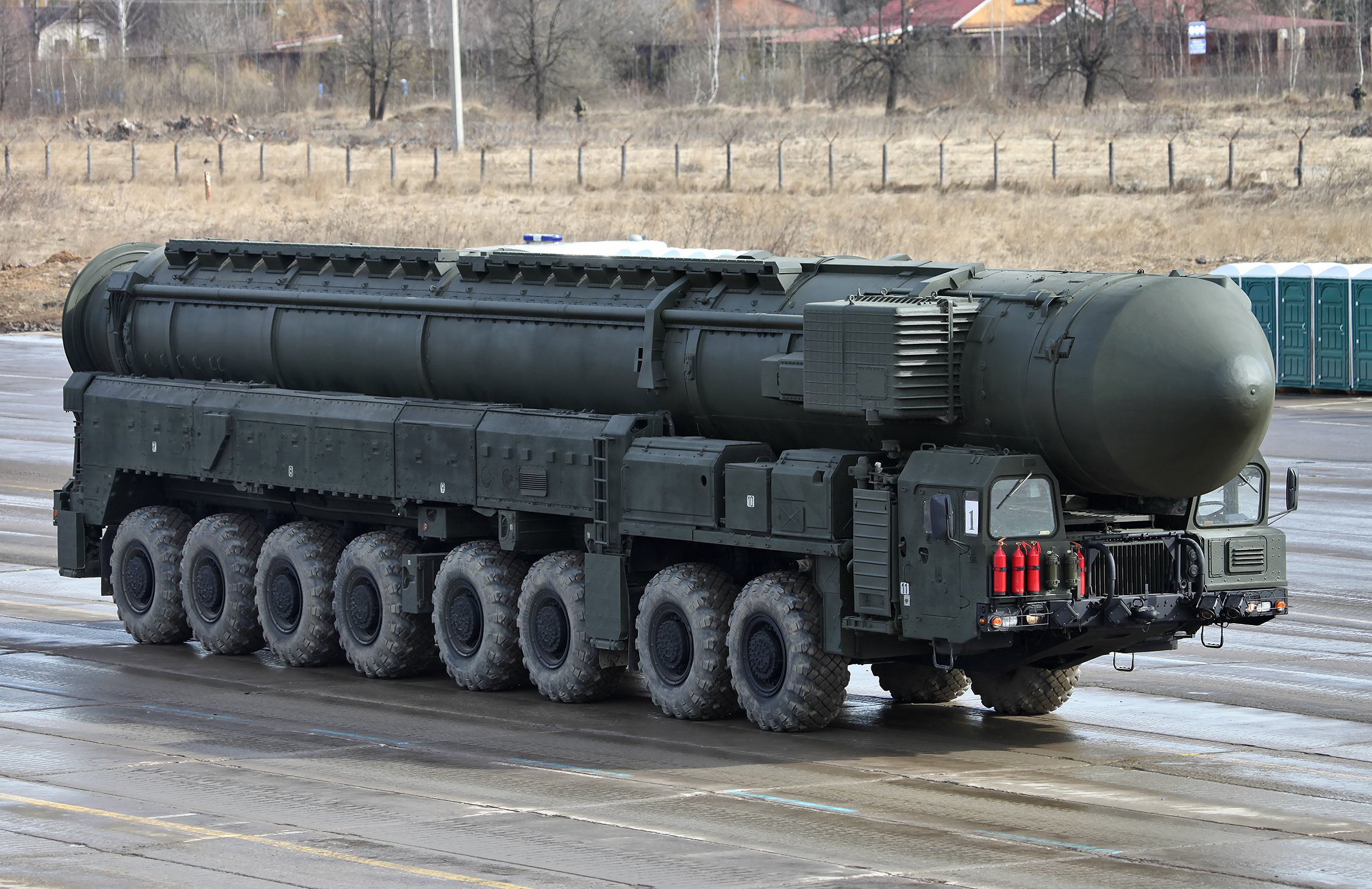 Yars missile system TEL